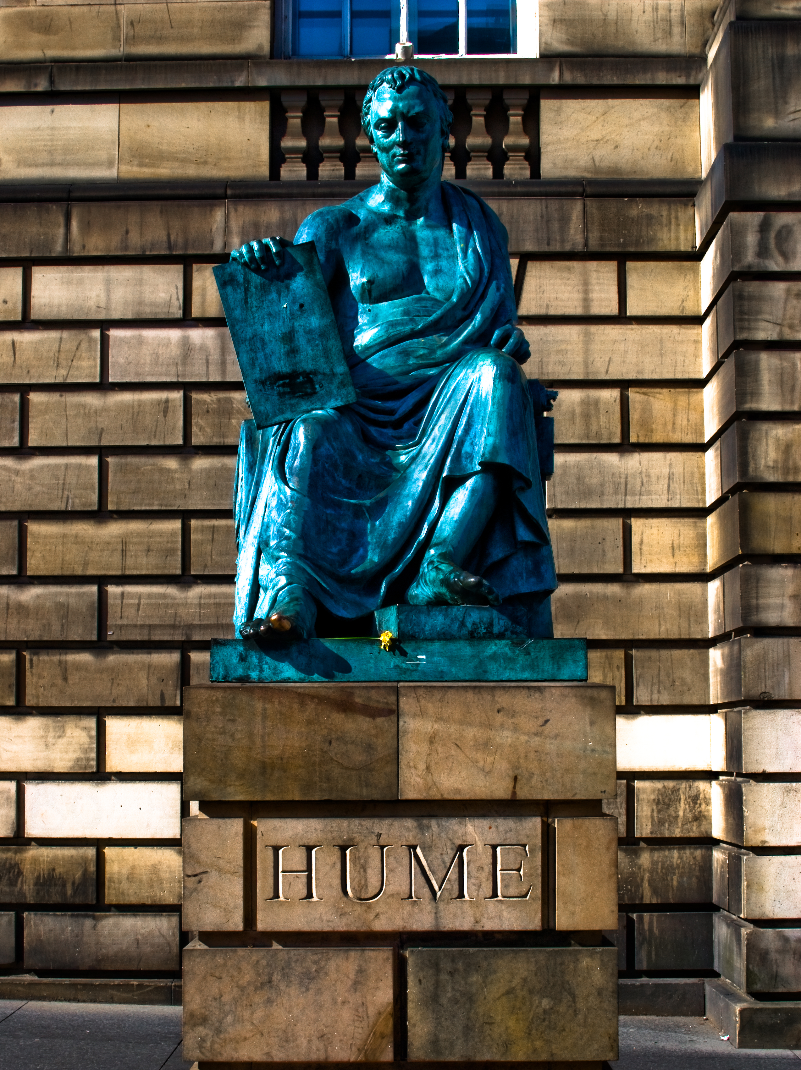 Statue of David Hume in Edinburgh, Scotland.